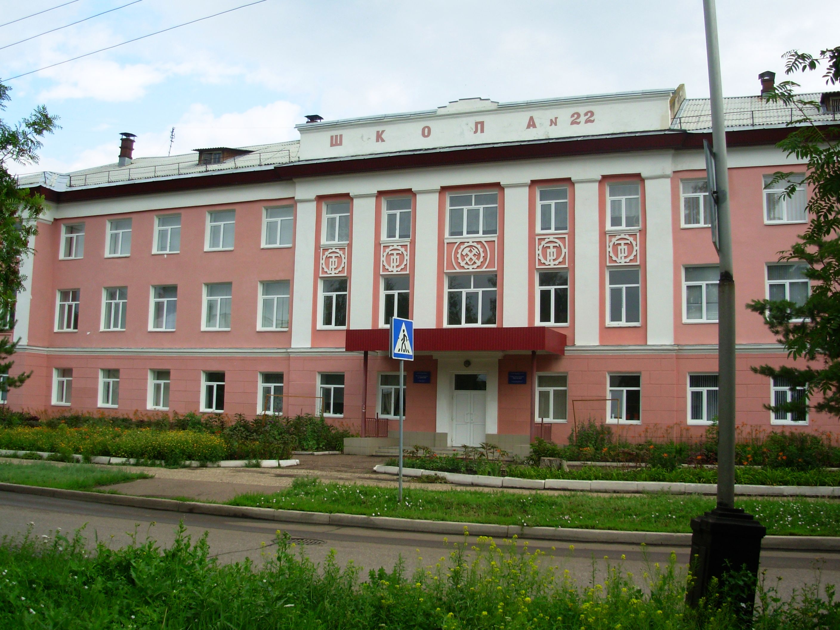 street